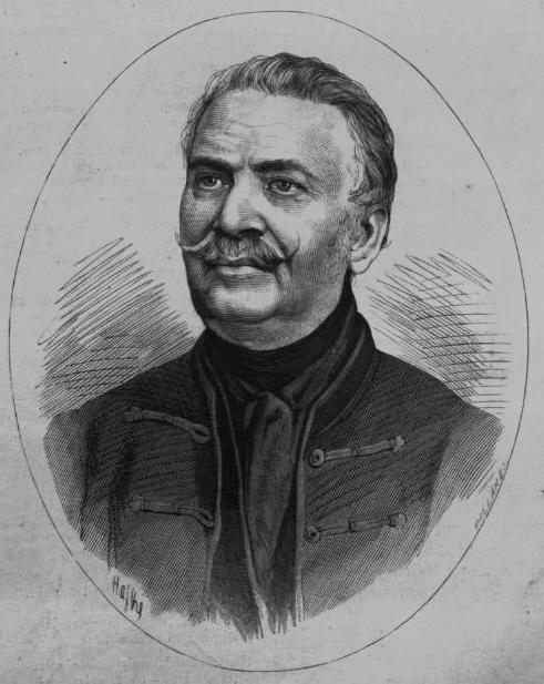 Portrait of Gábor Mátray